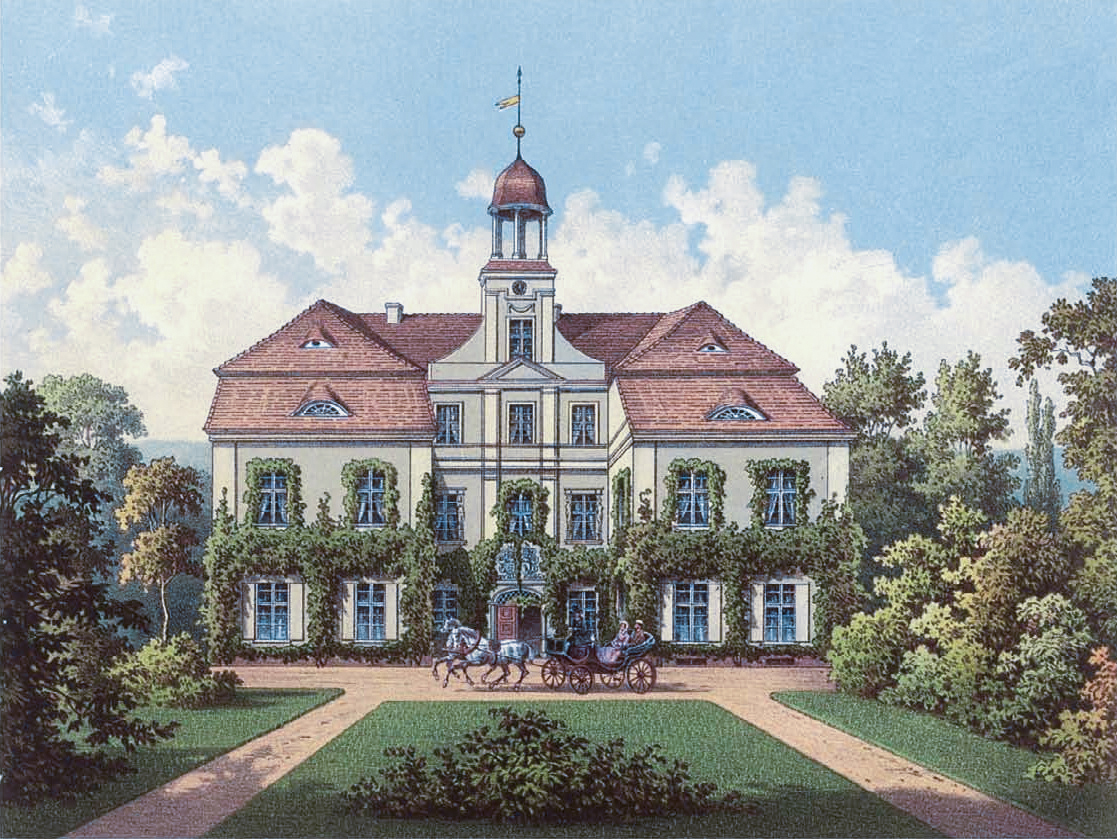 château de Nieder Peilau après vonTschirschky